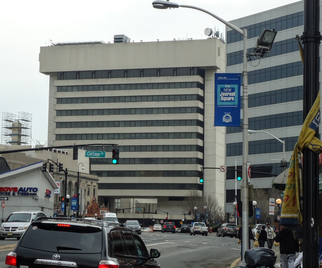 Jersey City street scene Kennedy Boulevard